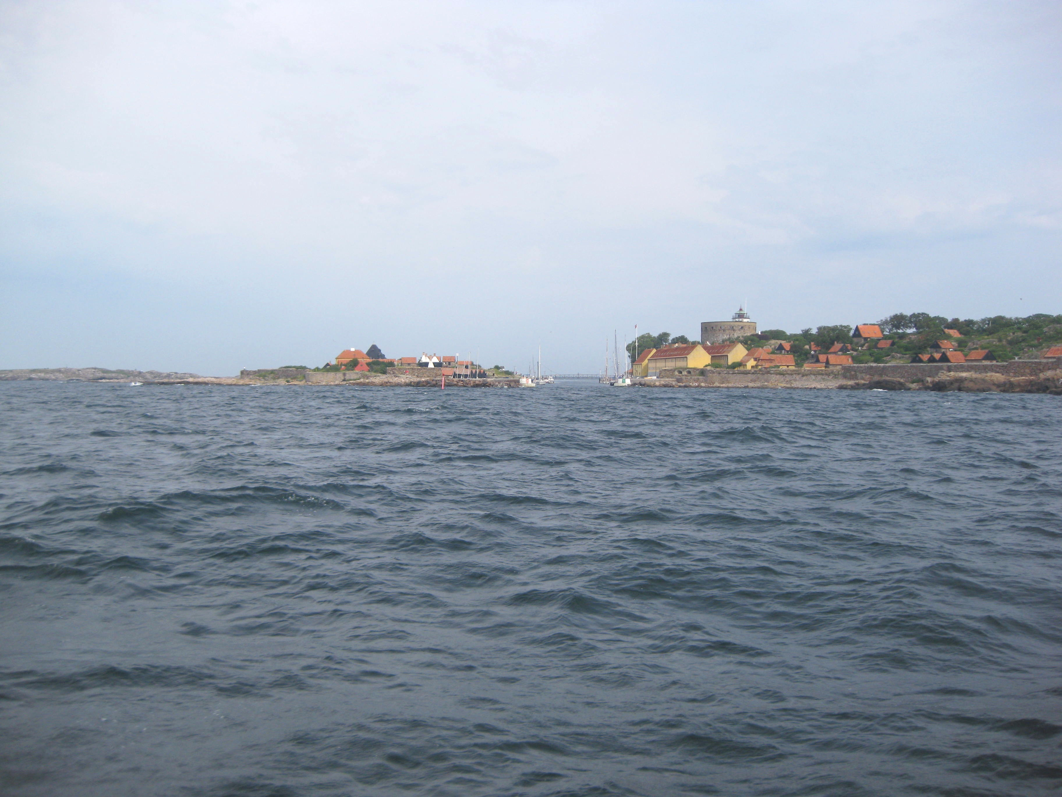 The small islands "Ertholmene" ("Christiansø" and "Frederiksø"). The islands are located in the Baltic Sea app. 20 kilometres from the town "Gudhjem" on the island Bornholm in east Denmark.